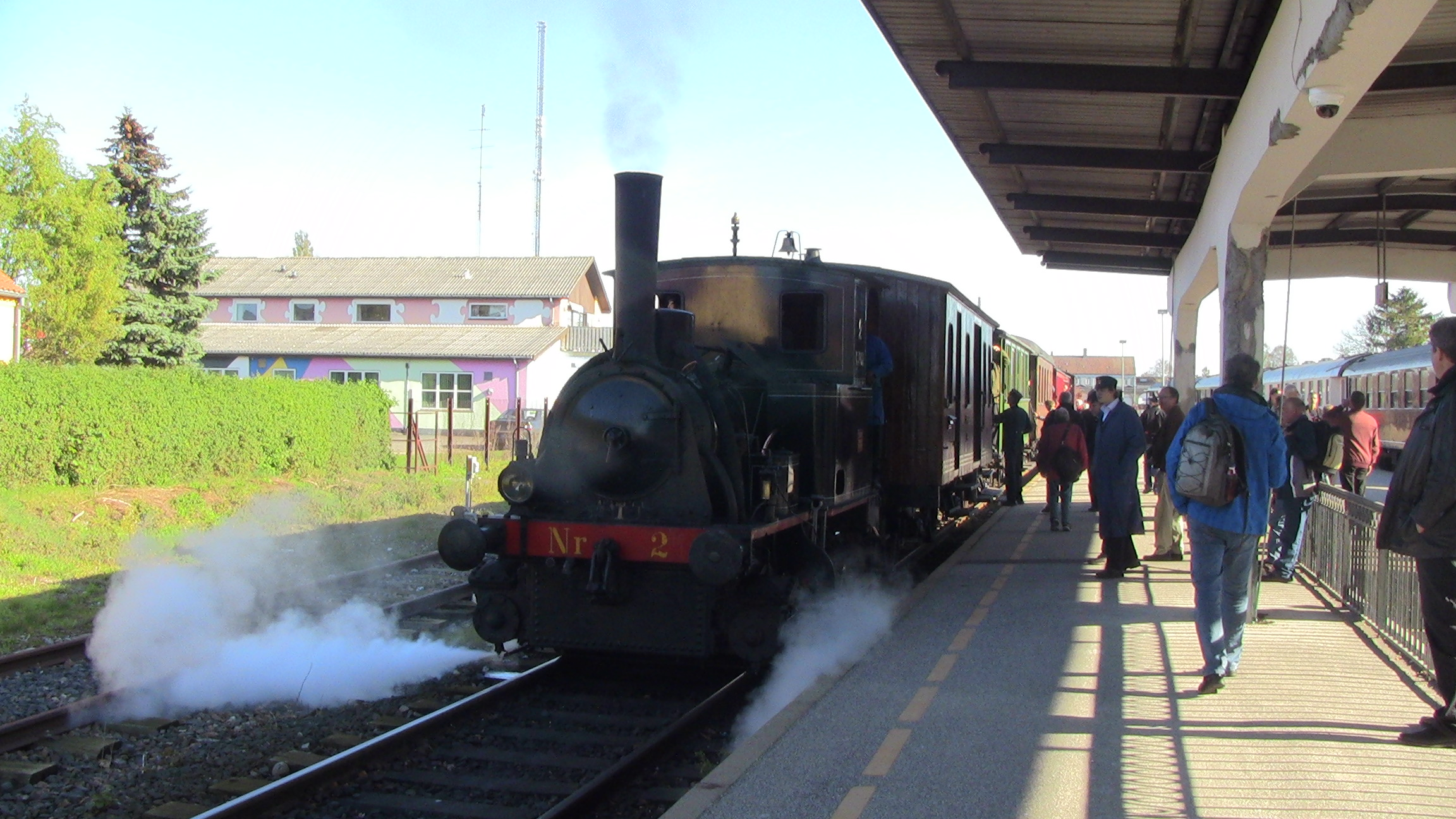 Steam locomotive ØSJS 2 with heritage train on Museumsbanen from Maribo to Bandholm. Ready to departure from Maribo.